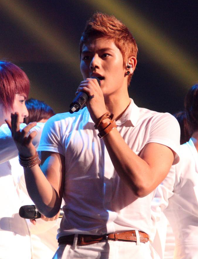 Photograph of Dongjun performing alongside the South Korean idol group, ZE:A, at the Cyworld Dream Music Festival 2011 on July 23, 2011. Derived from original photo on flickr.